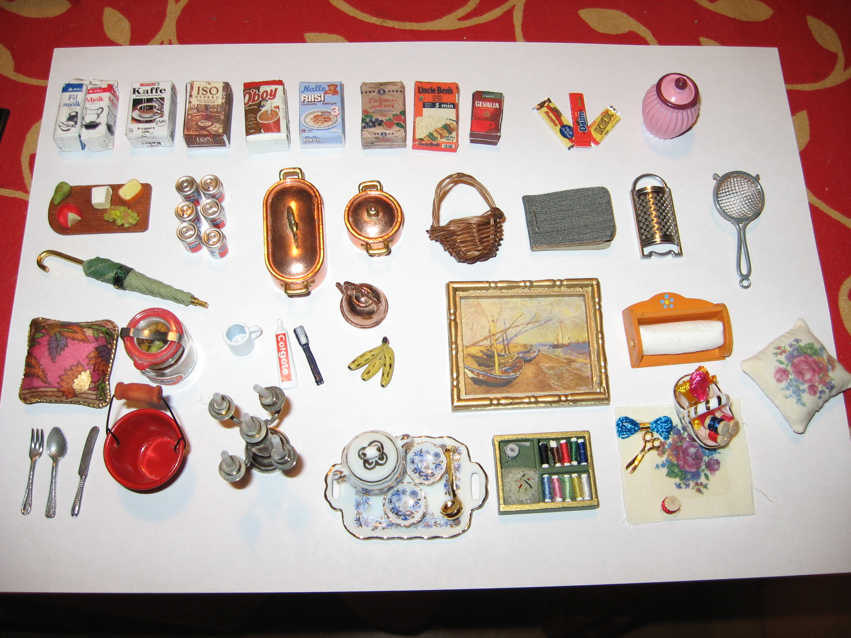 Things of a dollhouse